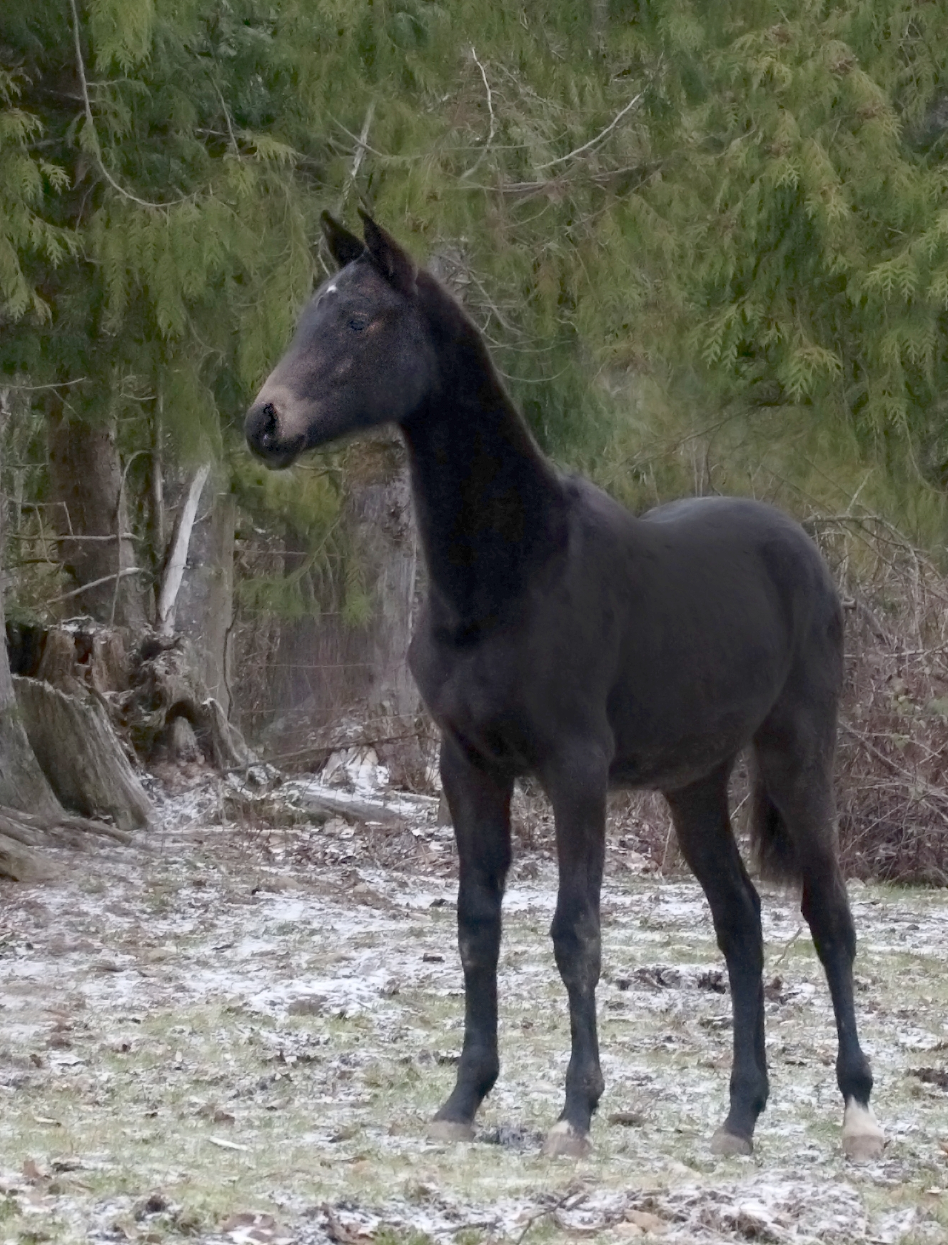 playing outside during our first snowfall! (from the Set: Argamak Stud Canada: miscellaneous horse shots of our Akhal-Teke stallion and mares)